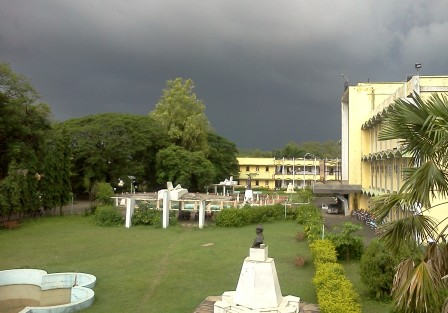 Samrat Ashok Technological Institute, Vidisha, Main Building